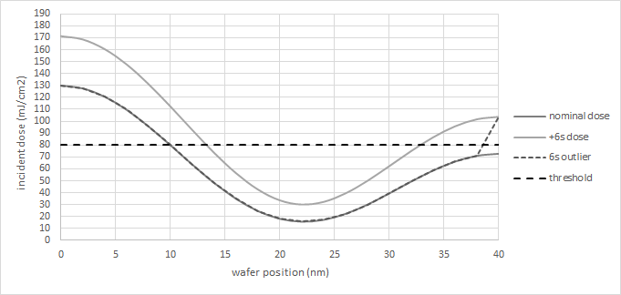 The +6 sigma dose variation at the location of a sub-resolution assist feature (SRAF) can cause local dose to go above the threshold to print. Threshold dose is 80 mJ/cm2. Image averaged over 2 nm x 2 nm. Ref.